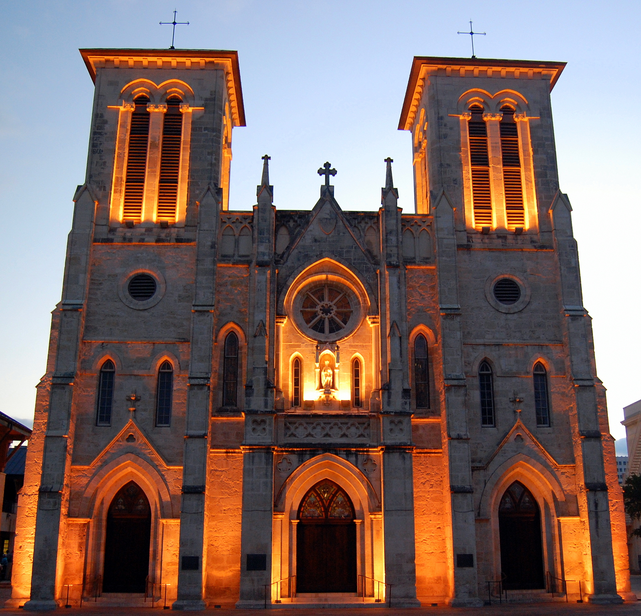 Cathedral of San Fernando in San Antonio, Texas at sunset